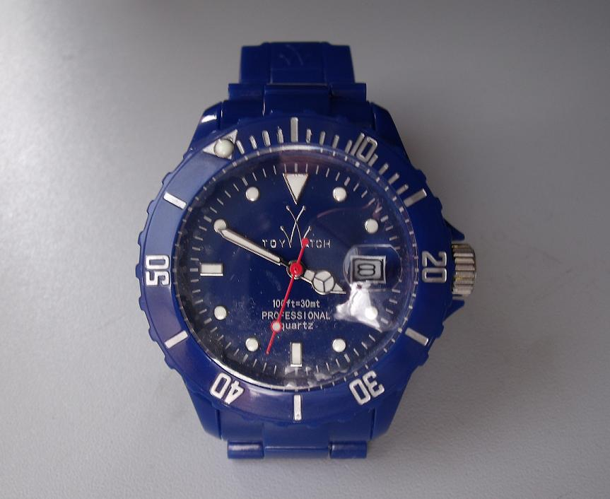 Toy Watch Fluo - Blue